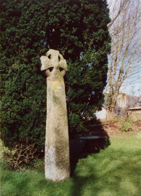 Cross in Lanivet Churchyard. This wheel-head cross is one of a number of ancient stones in the churchyard